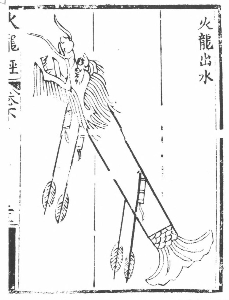 An illustration of a multistage rocket from the Huolongjing, a Chinese military treatise written in the 14th century by Jiao Yu and Liu Ji, the preface added in the year 1412. This missile was called the "fire-dragon issuing from the water" (huo long chu shui), a two-stage rocket. When the carrier or booster rockets were about to burn out they automatically ignited a swarm of smaller rocket-arrows which issued through the dragon mouth and fell upon the intended enemy target. The design seems to have been for use mainly in naval warfare. Since the trajectory was very flat the weapon may be regarded as an ancestor of the modern exocet. This illustration also appears on page 510 of Joseph Needham's book Science and Civilization in China: Volume 5, Part 7.